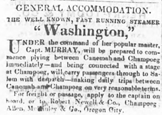 advertisement for steamboat Washington, Willamette river steamer, circa 1852